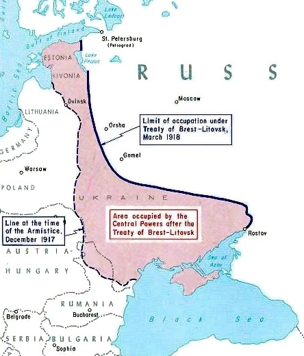 Derived from File:Armisticebrestlitovsk.jpg